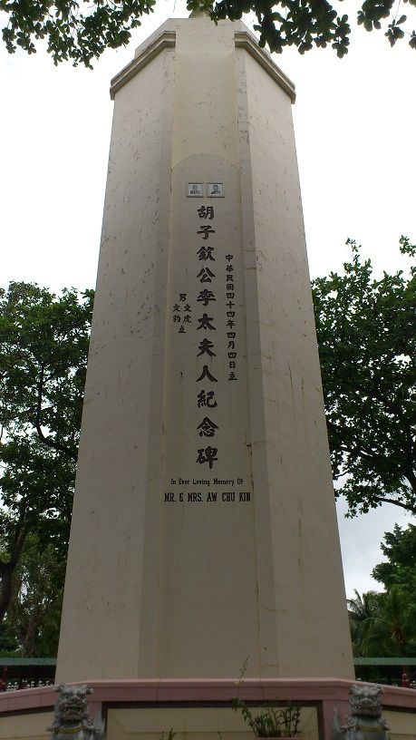 Memorial dedicated to the parents of Aw Boon Haw and Aw Boon Par at Haw Par Villa, Singapore. The Chinese words on the right say it was erected on 4 April 1955 (44th year in the Republic of China calendar).